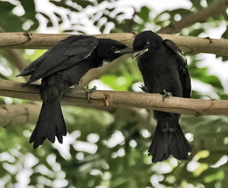 Black Drongo (Dicrurus macrocercus) in Kolkata, West Bengal, India.